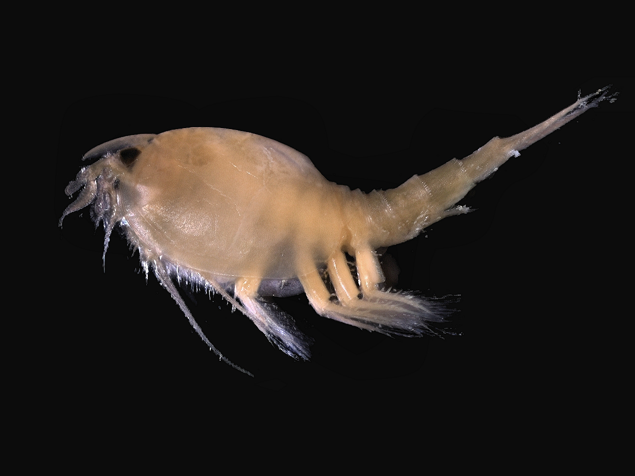 This leptostracan was sampled on the Belgian Continental Shelf in 2004. Length 5.5 mm (carapax 3 mm). Image Taken with an Axiocam (Zeiss) camera mounted on a Zeiss Stemi C-2000 binocular microscope. Geo-location not applicable as the picture was later taken in the lab.